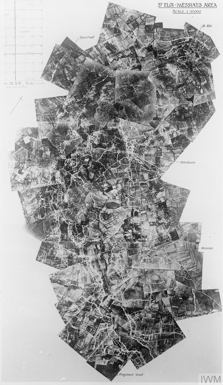 Photography Aerial Mosaic.